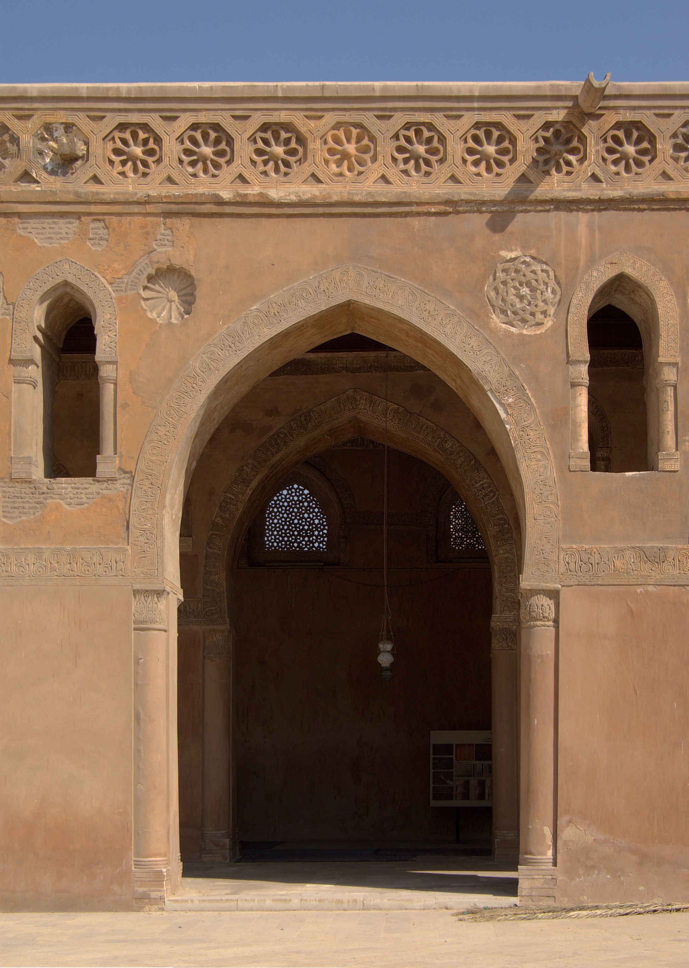 Cairo, Ibn Tulun Mosque